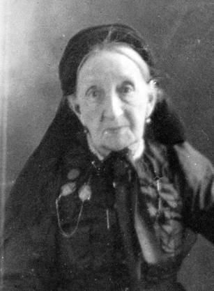 Photo of Dr. Elizabeth D. A. Cohen